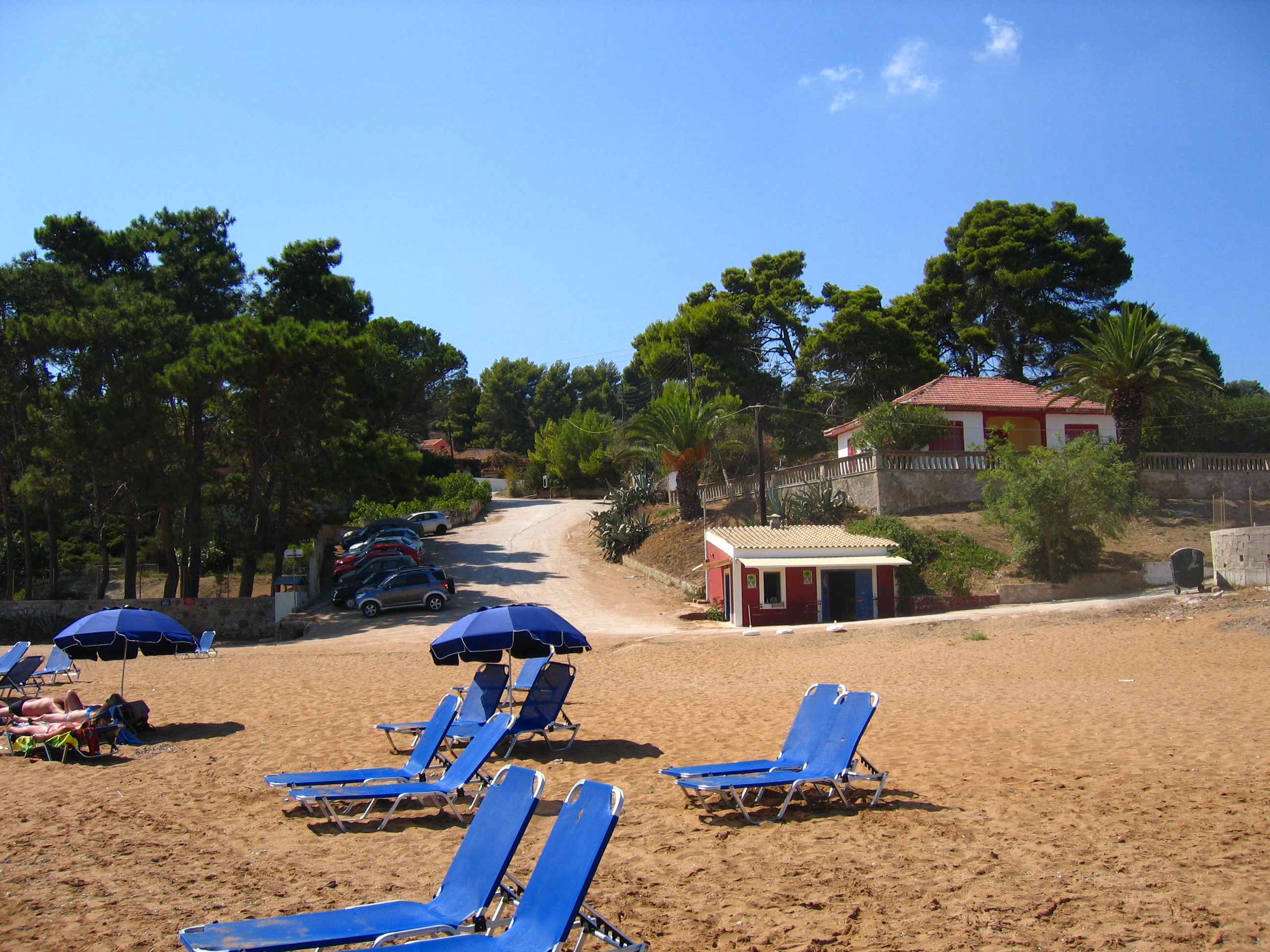 A view of the North end of Lepeda beach Kephalonia Greece showing the small beach shop at the end of the steep ramp leading down from the road to the beach